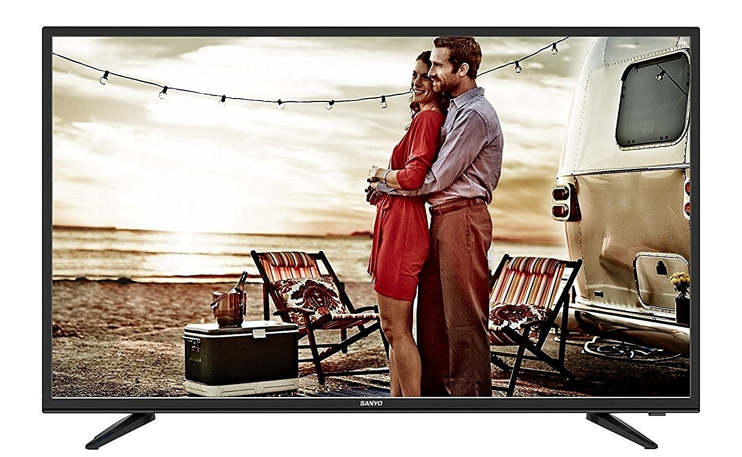 Sanyo 43 inch LED Full HD TV XT-43S7100F.